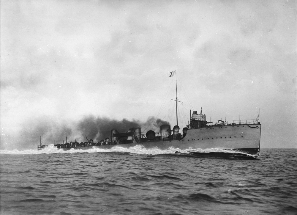 Starboard side view of HMS Ghurka at sea, 1908 (TWAM ref. 2931 War17). HMS Ghurka was a Tribal-class destroyer launched by Hawthorn Leslie on 29 April 1907. Tragically, HMS Ghurka was sunk on 8 February 1917 after striking a German mine off the coast at Dungeness in Kent. The shipyard of R. & W. Hawthorn Leslie at Hebburn built many fine warships. During the First World War the firm built 2 light cruisers, 3 destroyer leaders and 25 torpedo boat destroyers. The firm also built machinery and boilers for 2 battleships, and a further 3 light cruisers. These and other warships built by Hawthorn Leslie before the War, are remembered in this set. There are remarkable images of warships under construction at Hebburn, as well as fascinating shots of the people who attended the launches. The set also contains majestic views of the ships at sea. The images are not only a testimony to the skill of those who designed and built these ships but also to the courage of those who sailed in them. (Copyright) We're happy for you to share these digital images within the spirit of The Commons. Please cite 'Tyne & Wear Archives & Museums' when reusing. Certain restrictions on high quality reproductions and commercial use of the original physical version apply though; if you're unsure please